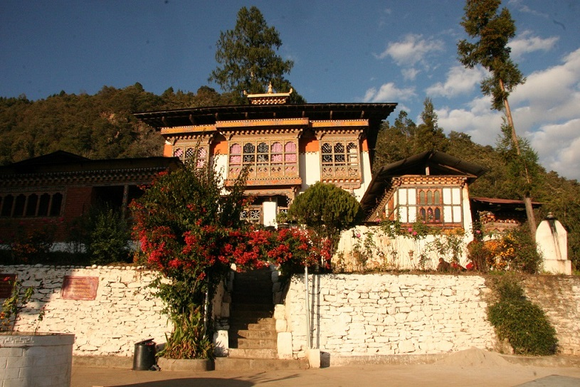 photo of the Nalanda (upper) temple at Nalanda Buddhist Institute, Punakha Dz Bhutan 2013. taken from the main courtyard